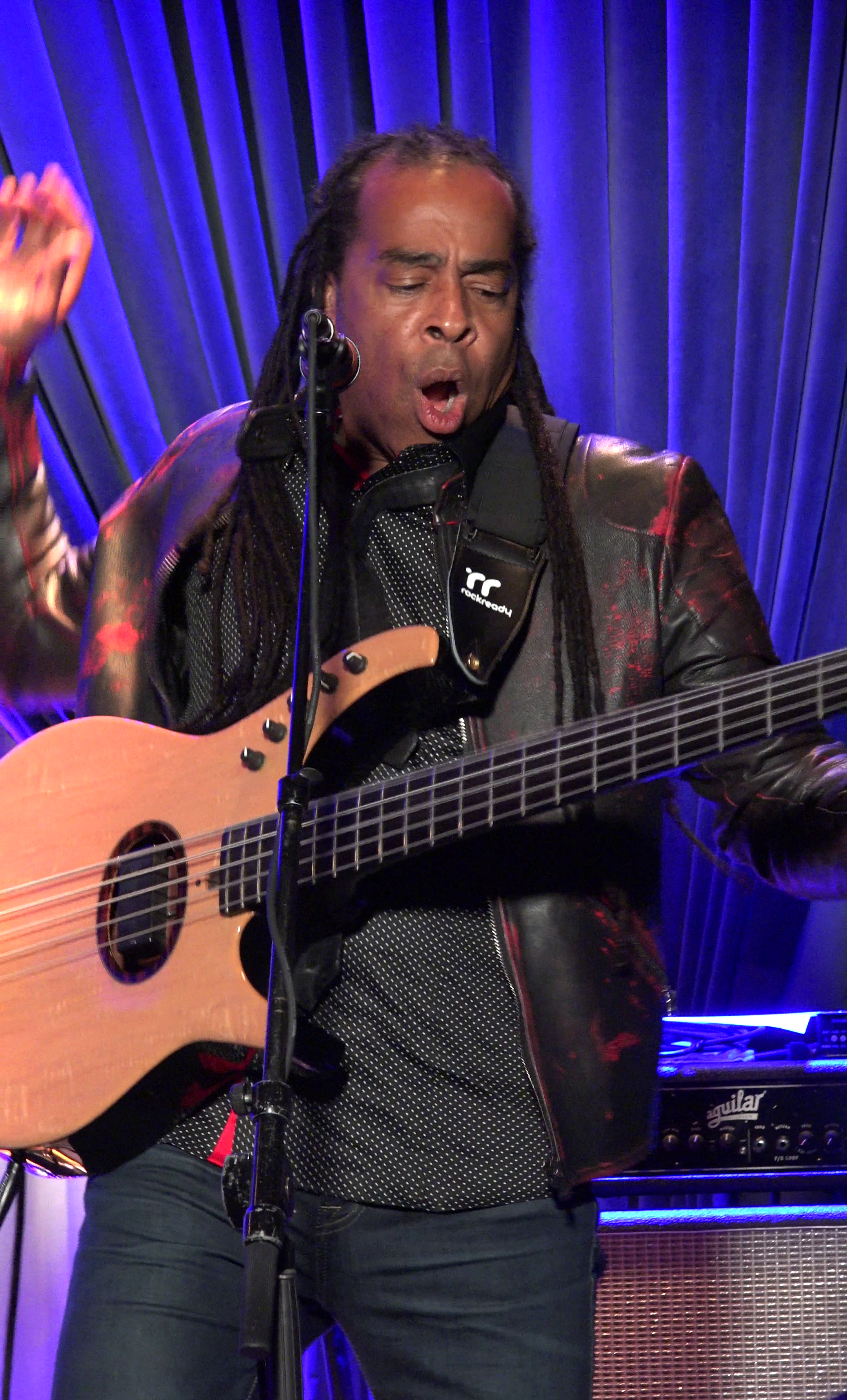 Doug Wimbish with Living Colour live at the Blue Note in New York City